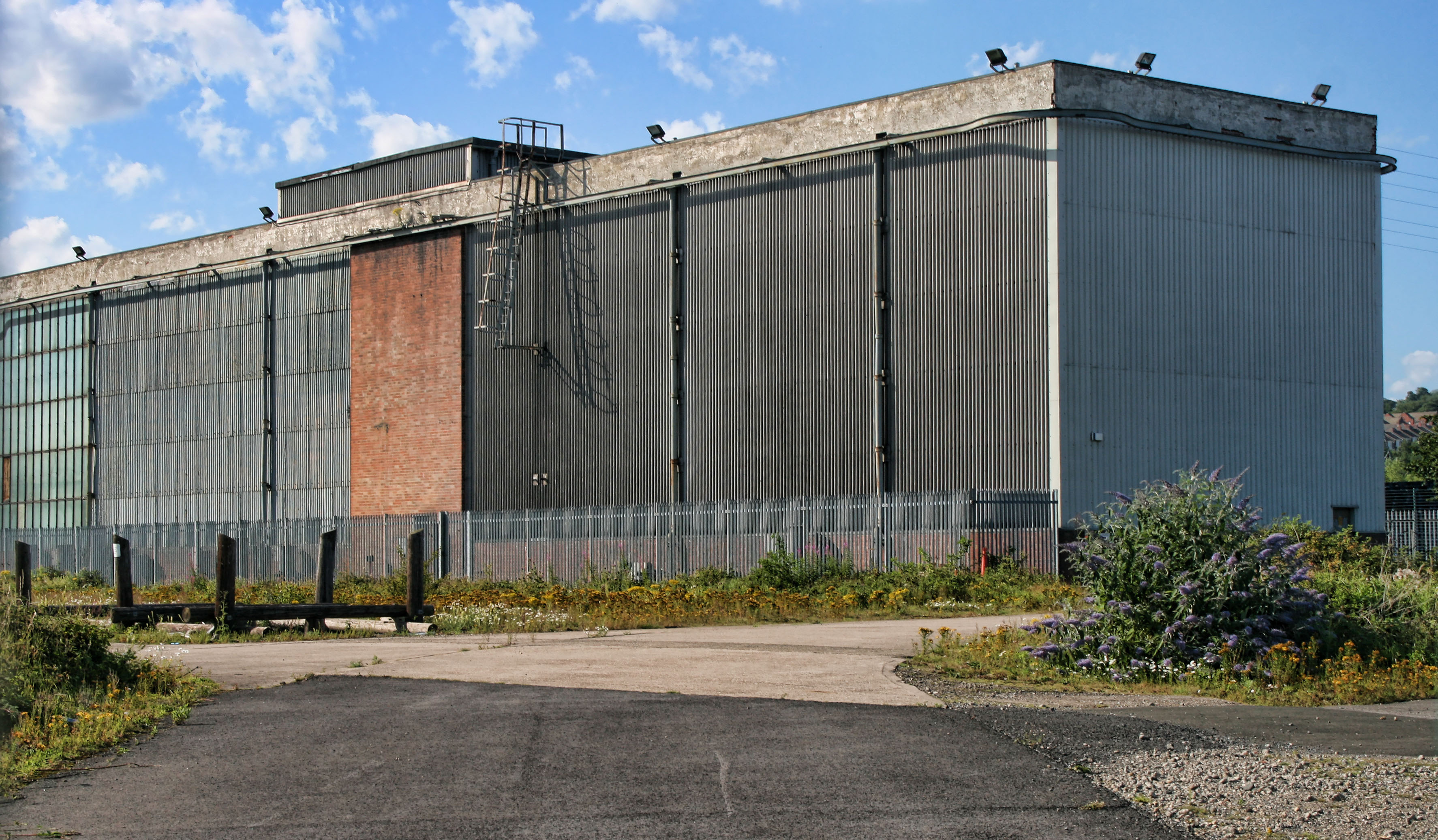 Dunston Power Station, Data from Geograph: Description: One of the few remaining buildings at Dunston Power Station. ICBM: 54.959542562799, -1.6606219944599 Location: (about 2 km from) near to Dunston, Gateshead, Great Britain.